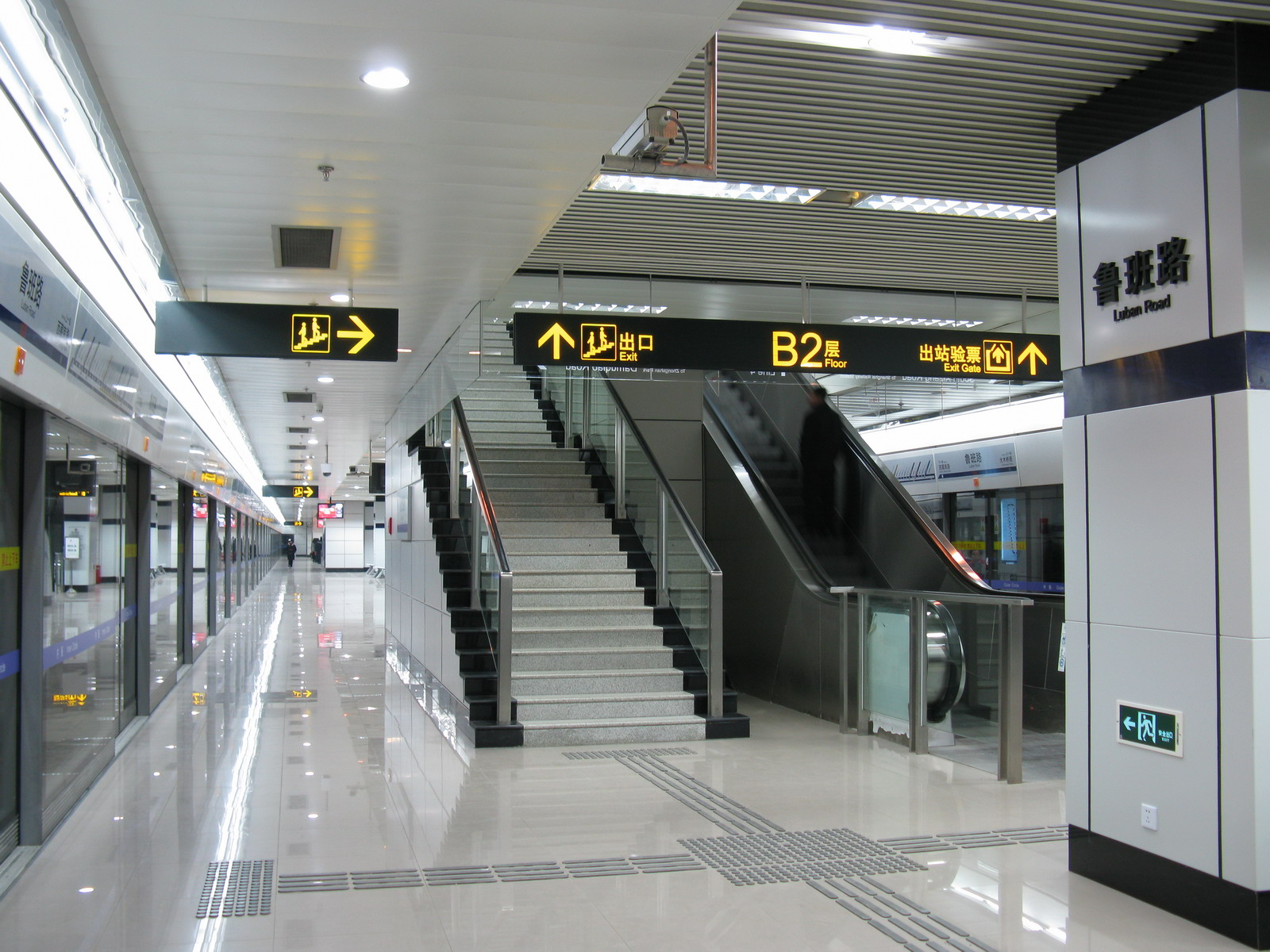 鲁班路站 4号线月台 Line 4 Platform of Luban Road Station